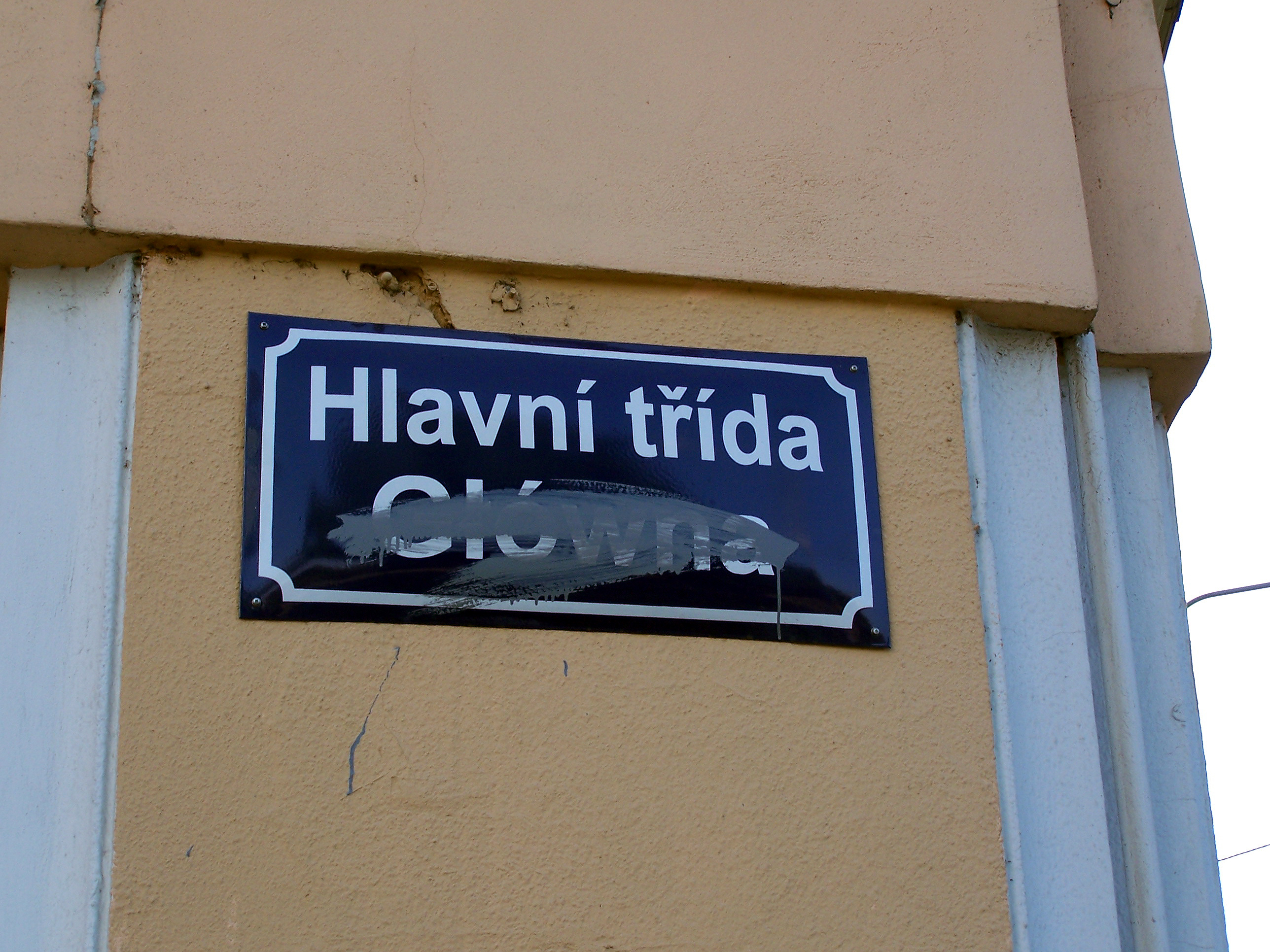 Bilingual (Czech and Polish) street names in Český Těšín (Czeski Cieszyn), Czech Republic. The Polish sign was smeared over by "unknown vandals".